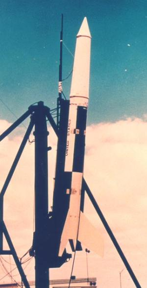 Astrobee-1500 sounding rocket